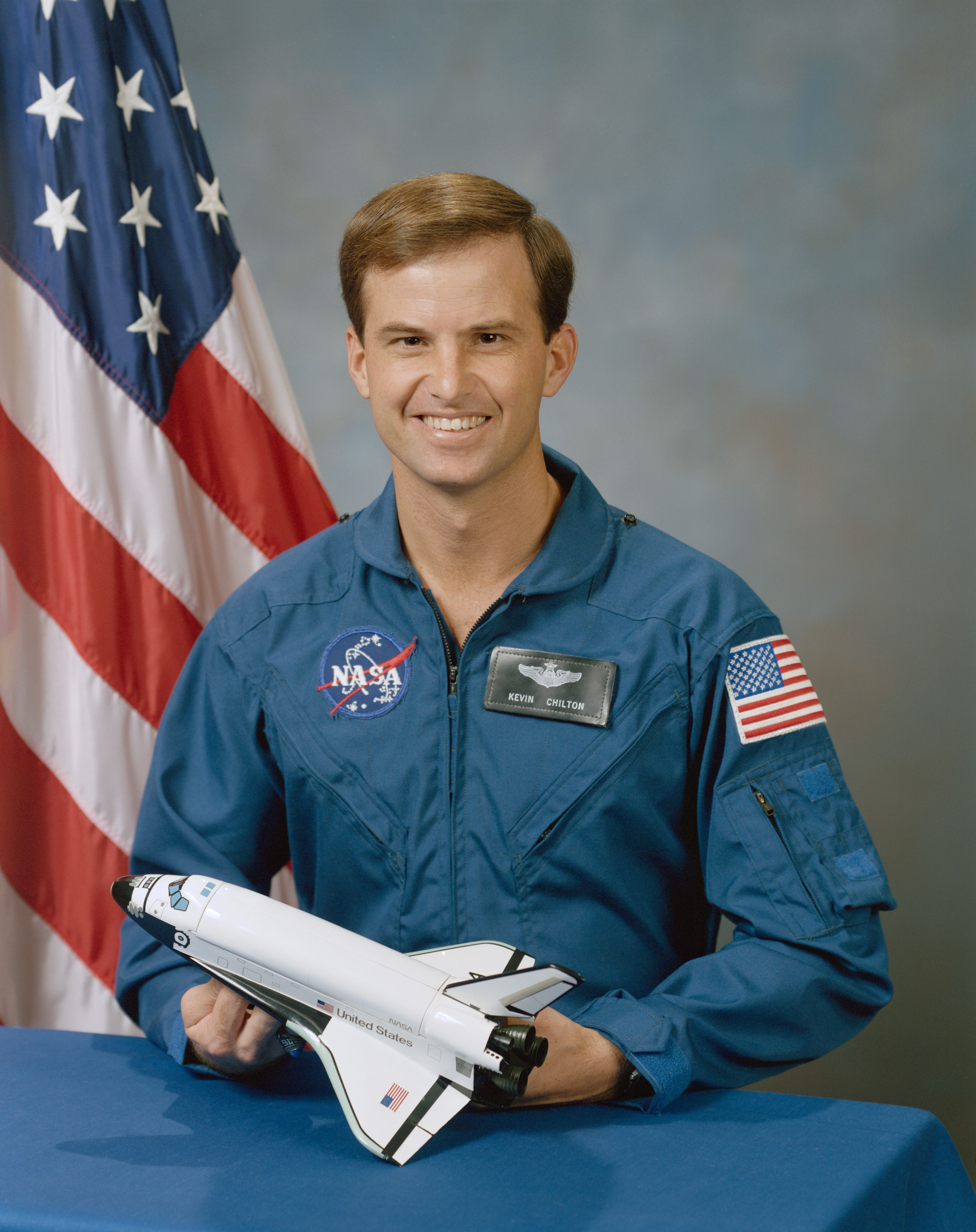 Astronaut Kevin P. Chilton, astronaut candidate.